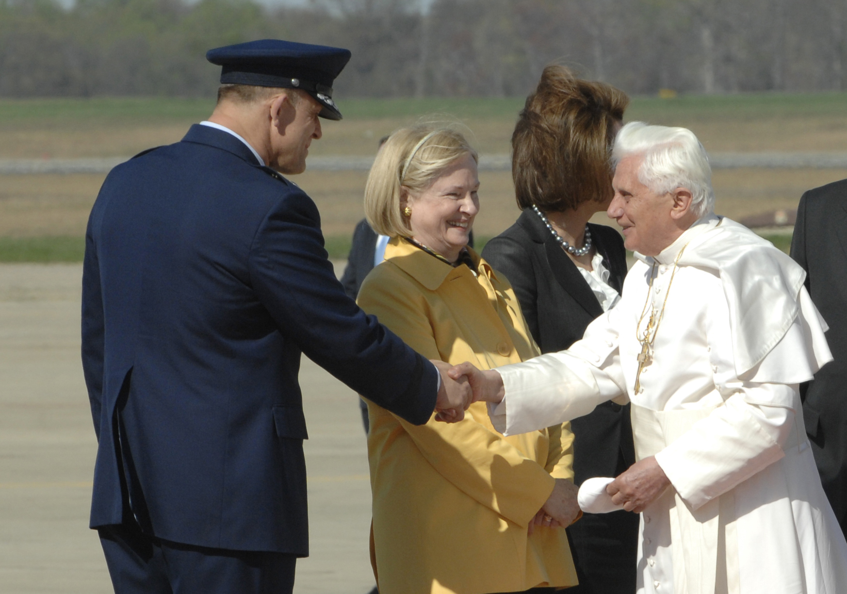 Maj Gen Frank Gorenc, Commander, Air Force District of Washington, greets Pope Benedict XVI upon his arrival at Andrews Air Force Base, Md., hosted by the 316th Wing and the Air Force District of Washington, on April 15th, 2008, beginning his weeklong trip to the United States. The Pontiff, selected 265th pope on April 19, 2005, will meet with President George W. Bush at the White House, address the Presidents of Roman Catholic Colleges and Universities, and celebrate mass at Nationals Park in Washington D.C. and Yankee Stadium in New York City.